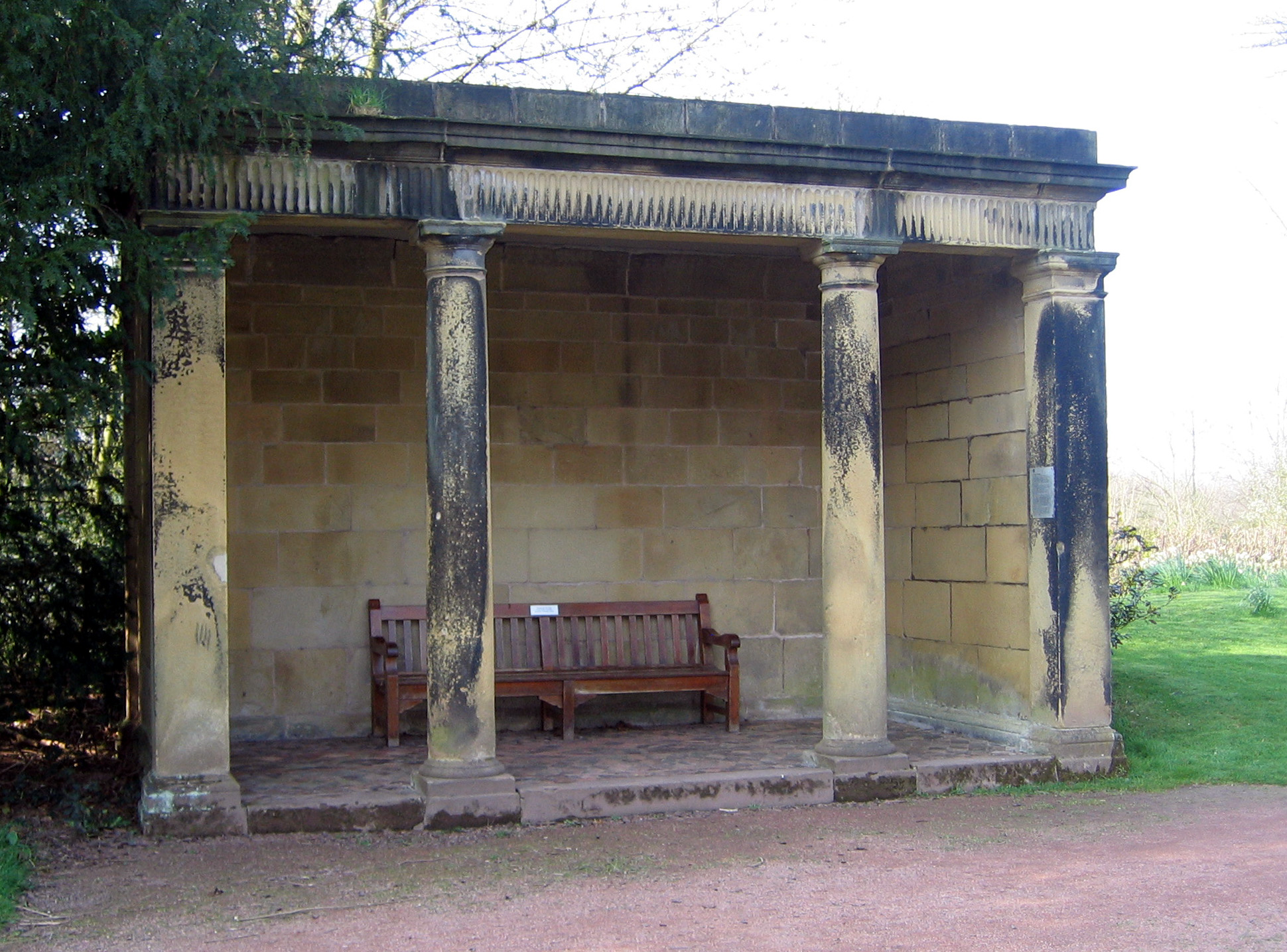 Photograph taken by me on 1 April 2007. It shows a loggia in the grounds of Norton Priory, near Runcorn, Cheshire, England. It is built in brick and yellow sandstone and is a Grade II listed building; it was possibly designed by James Wyatt.